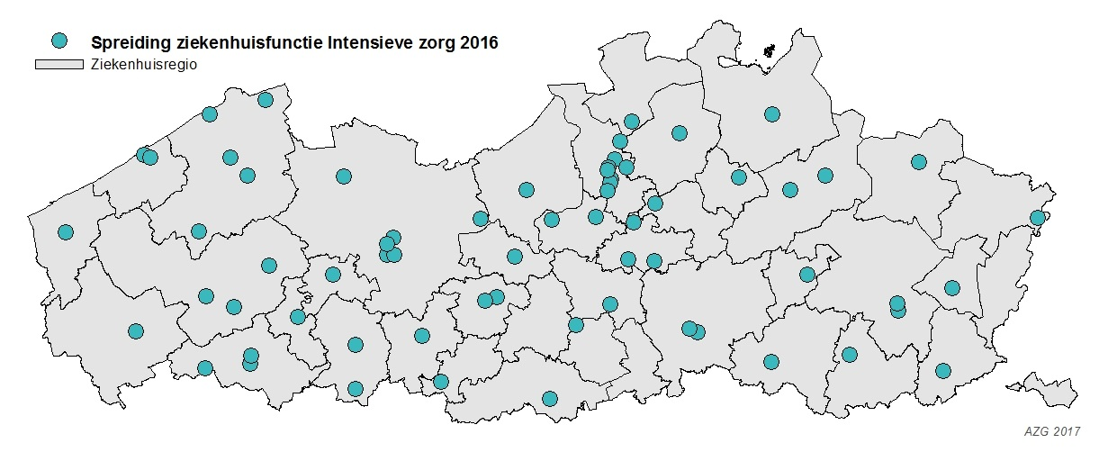 Geographical distribution of intensive care units in 2016 in Flanders